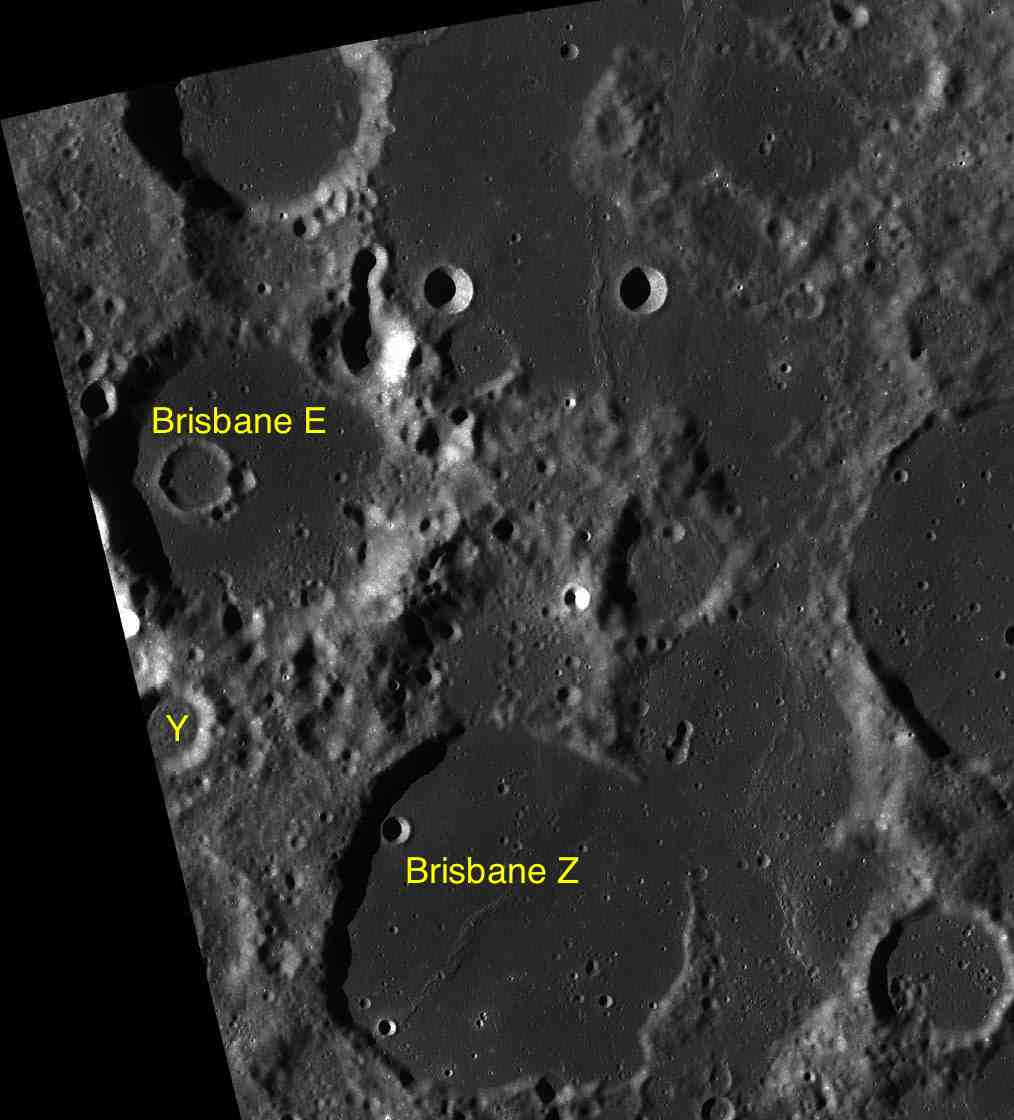 Part of the chart LAC-129 used for the presentation